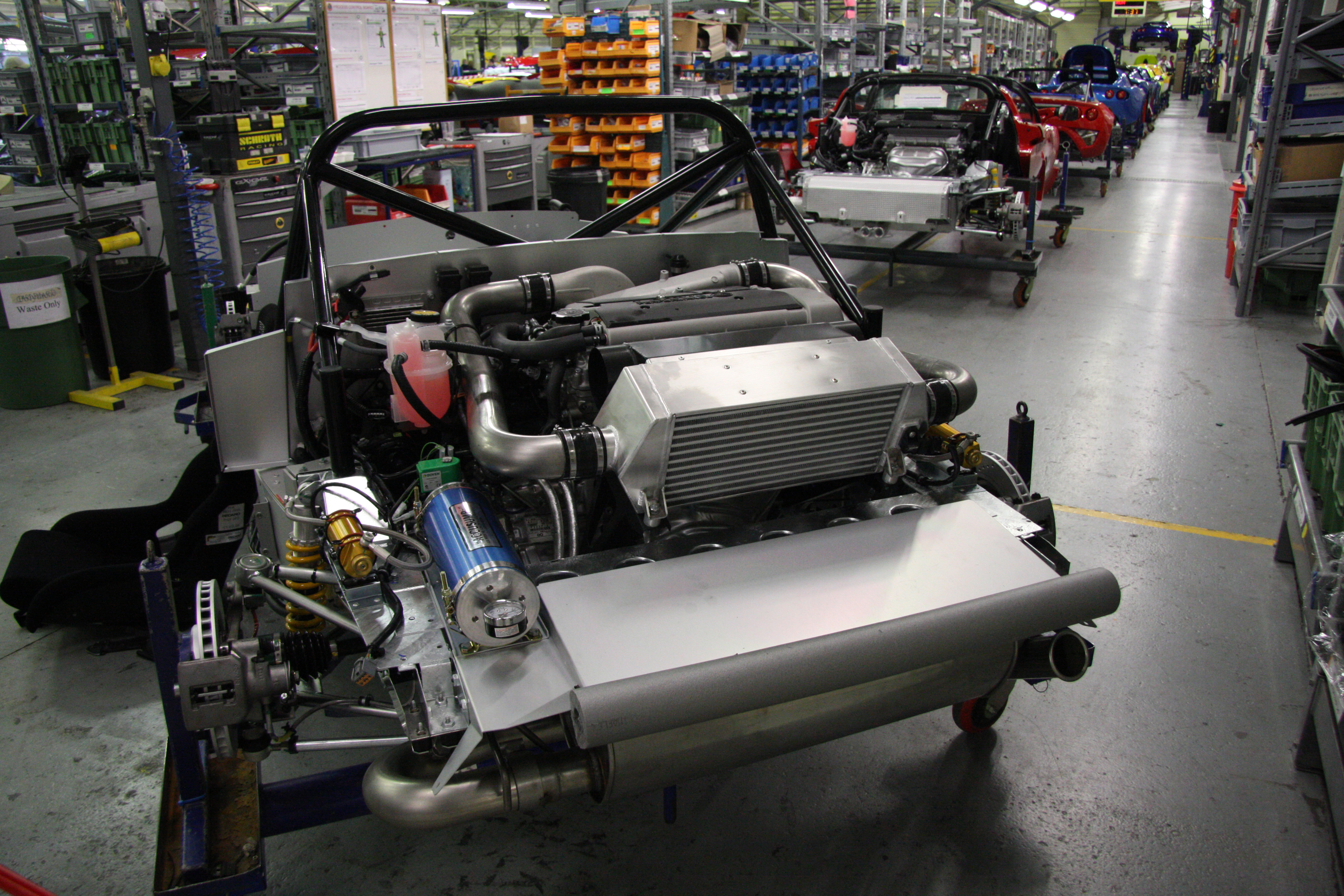 Lotus 60th Celebration.